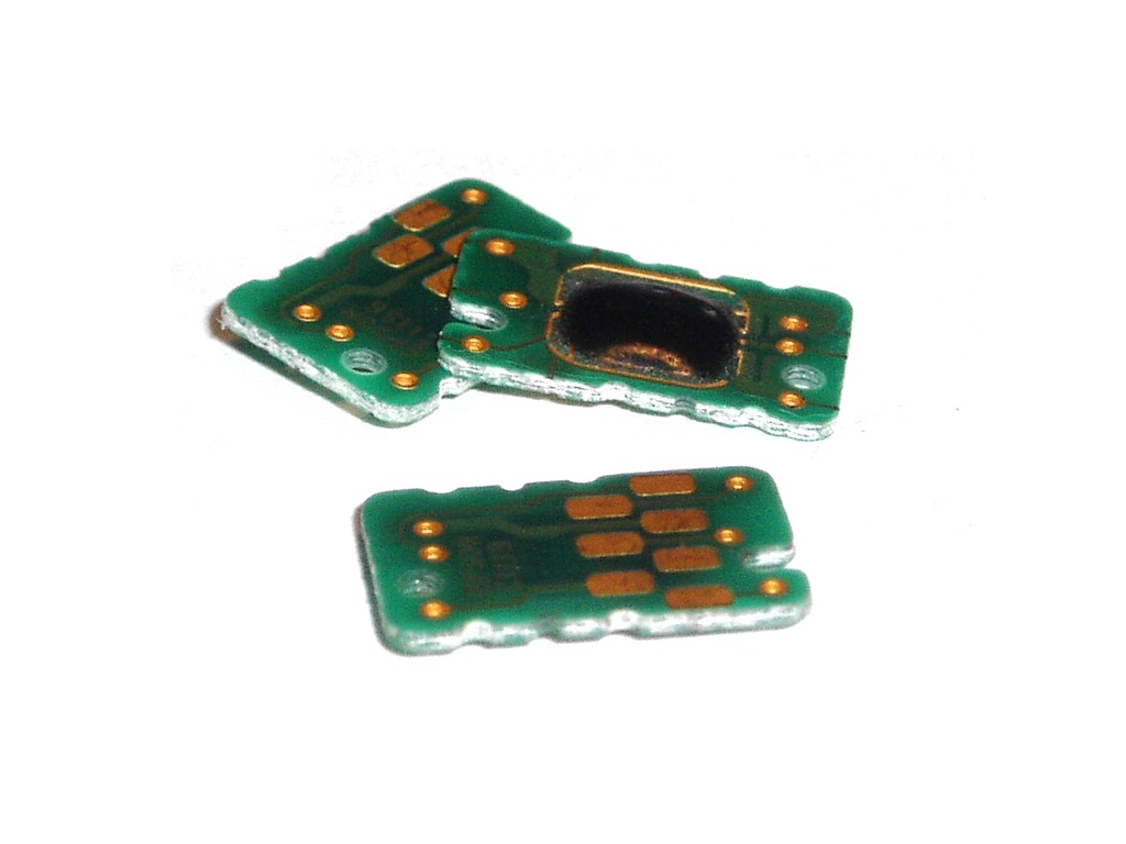 By Richard Wheeler (Zephyris) 2007. Microchips from Epson ink cartriges. These are small printed circuit boards, the black dome contains the chip itself.